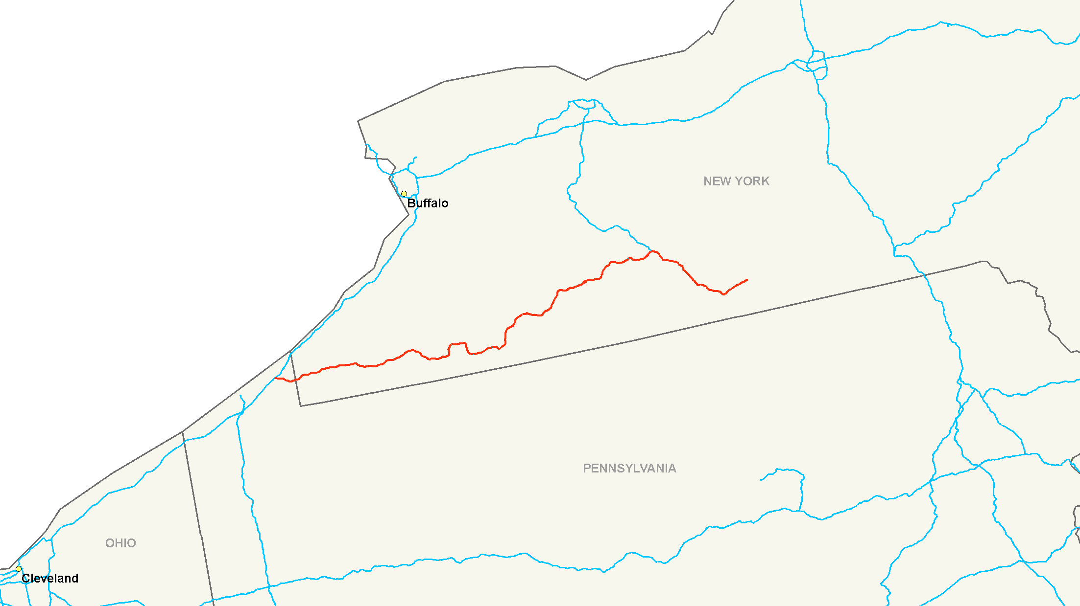 Map of Interstate 86 (East)